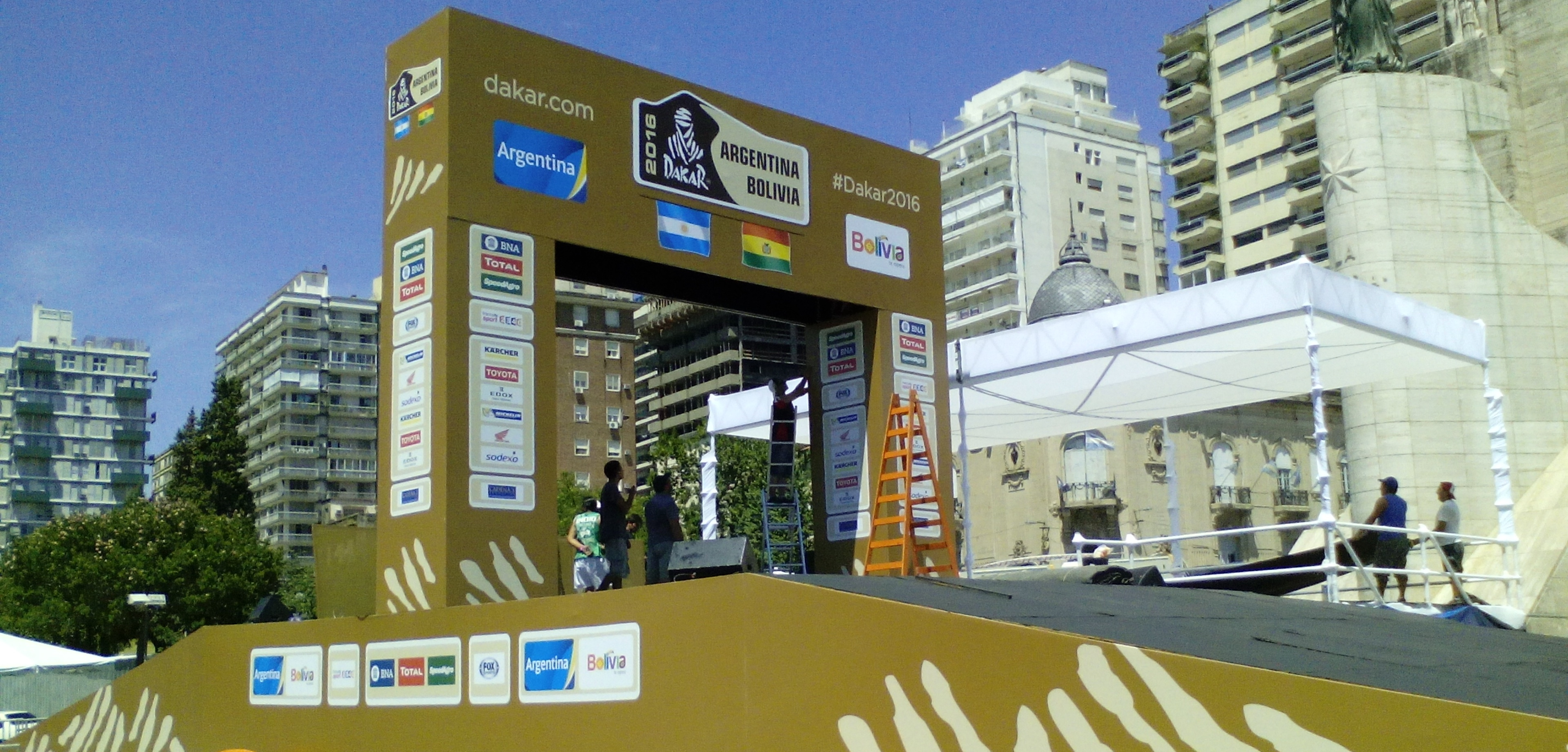 2016 Dakar Rally. Podium in Rosario, Argentina.